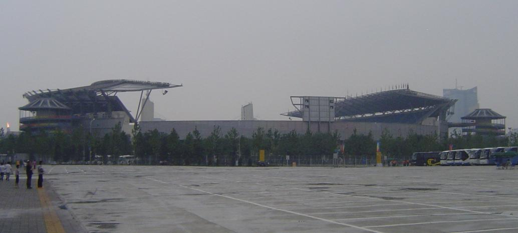 The stadium of the Olympic Sports Centre.